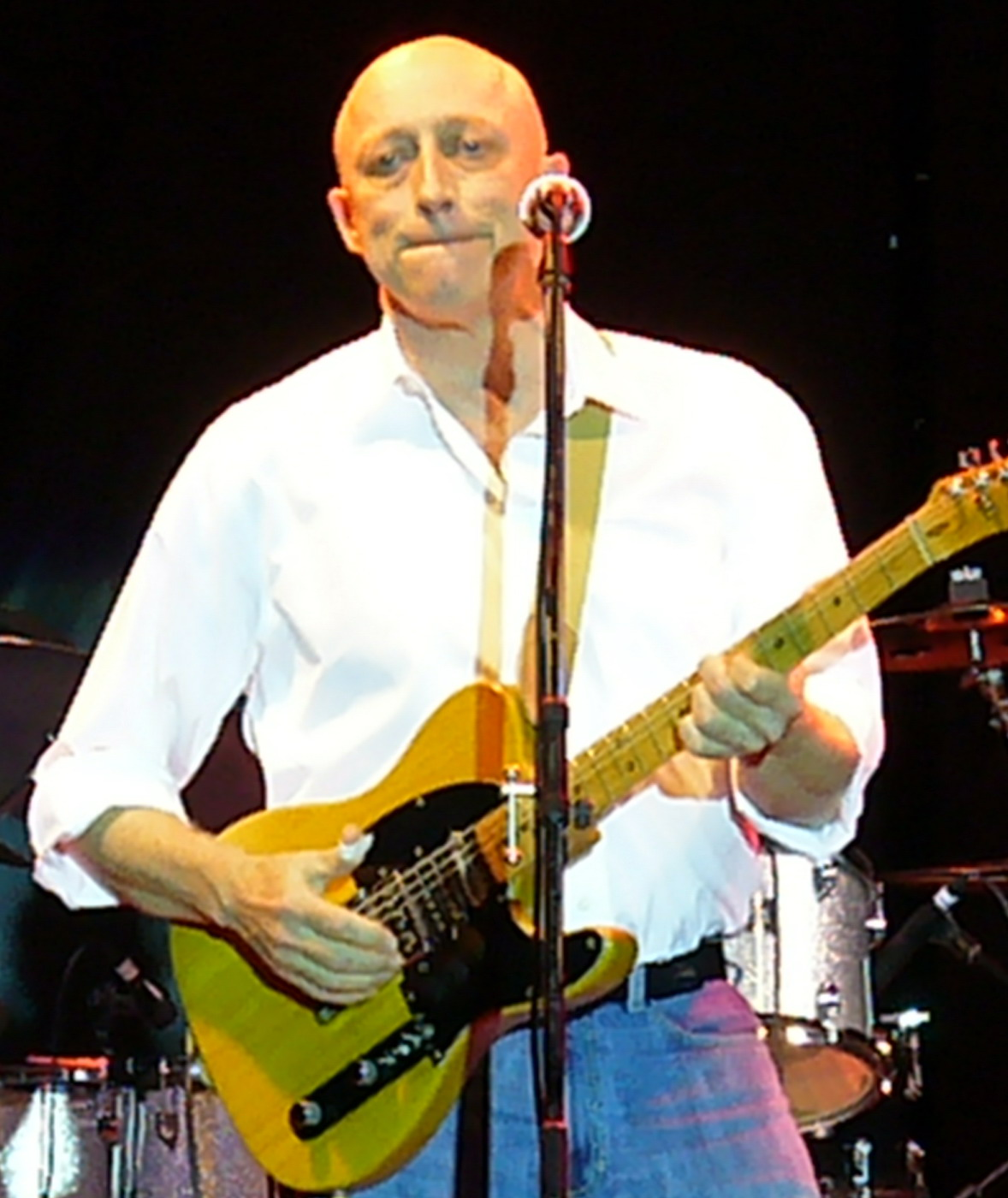 Canadian blues musician David Wilcox performing at the 2008 Fergus Truck Show